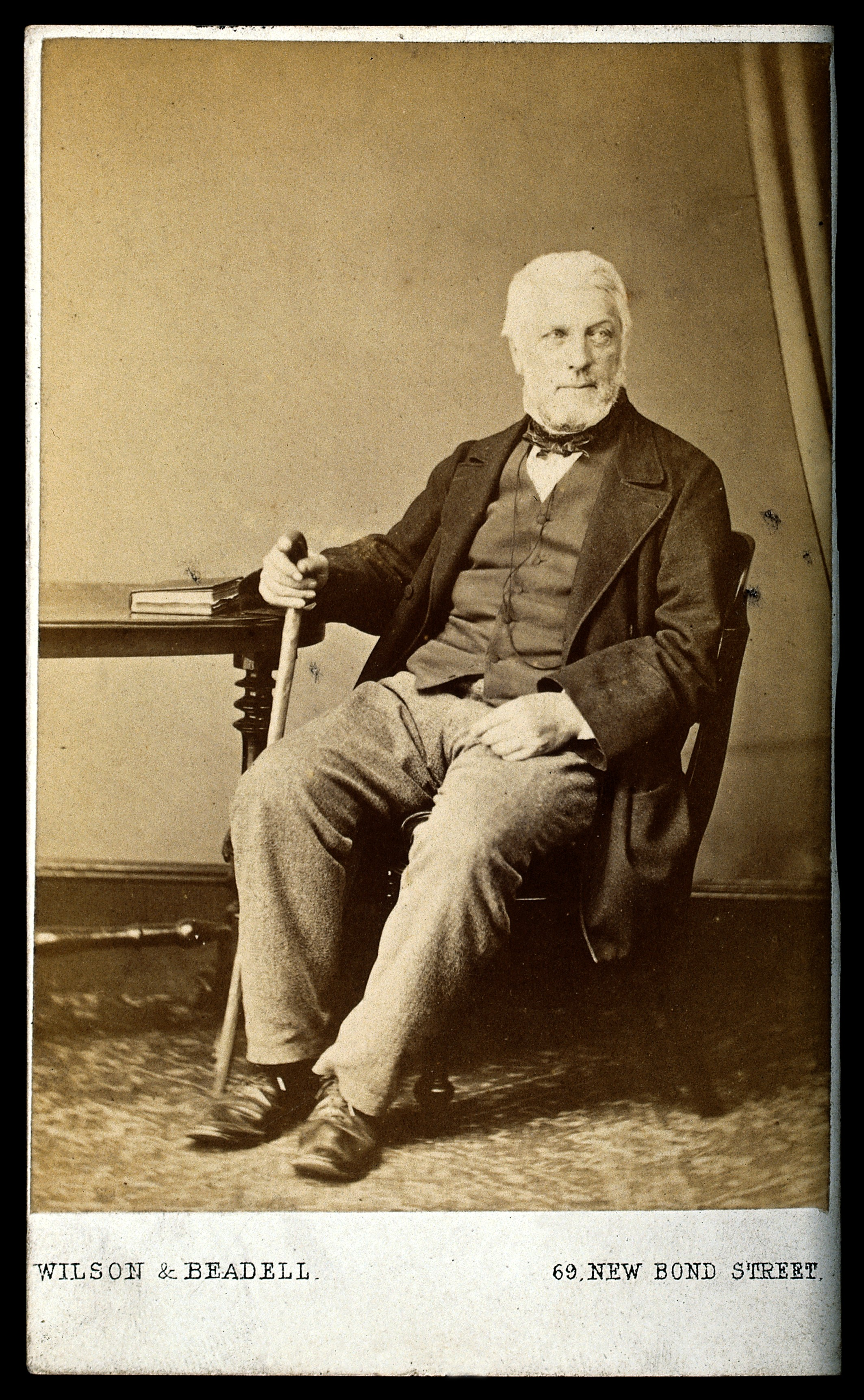 George Gulliver. Photogravure by Wilson & Beadell. Iconographic Collections Keywords: portrait prints